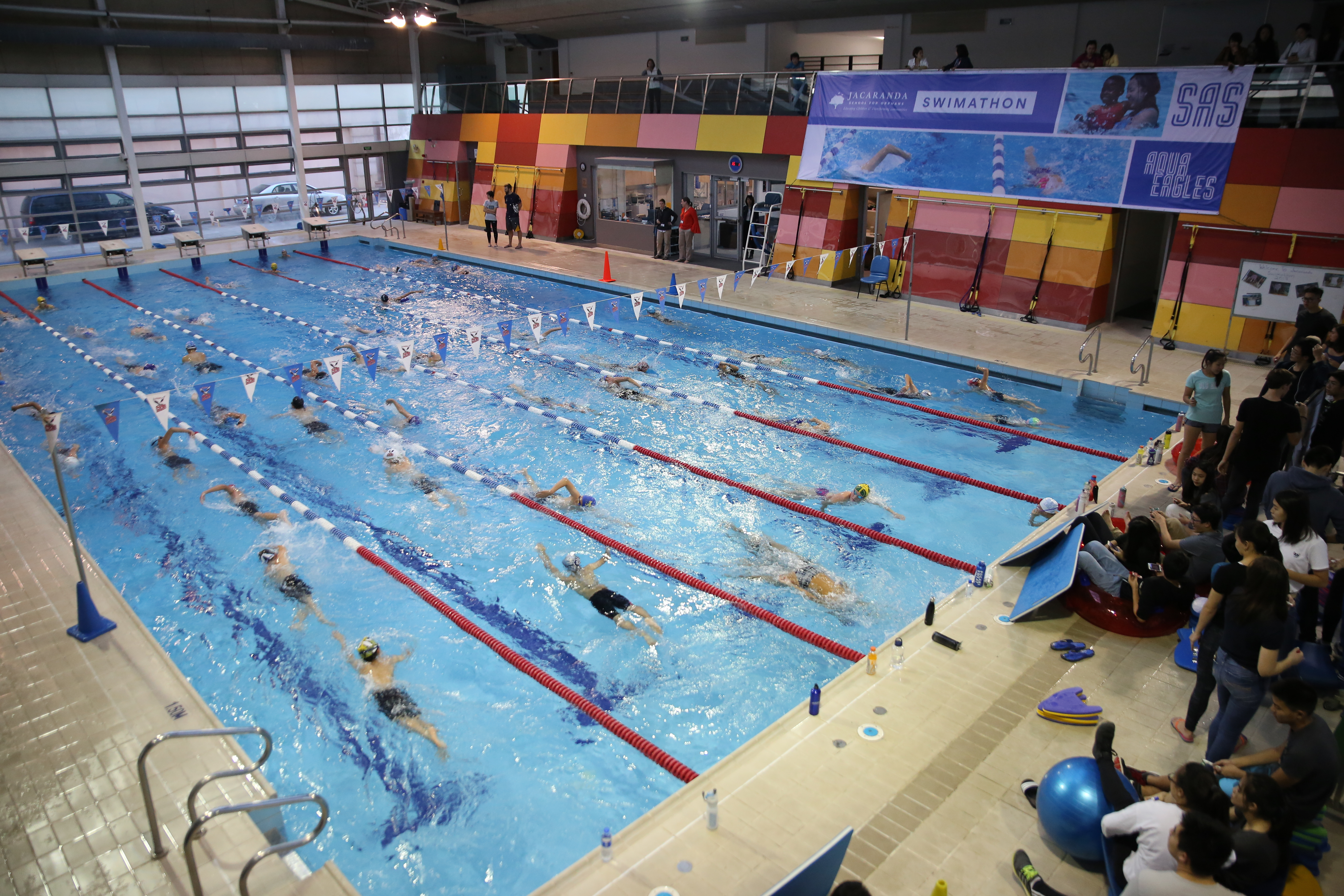 Aquatic Center at SAS, Puxi campus.